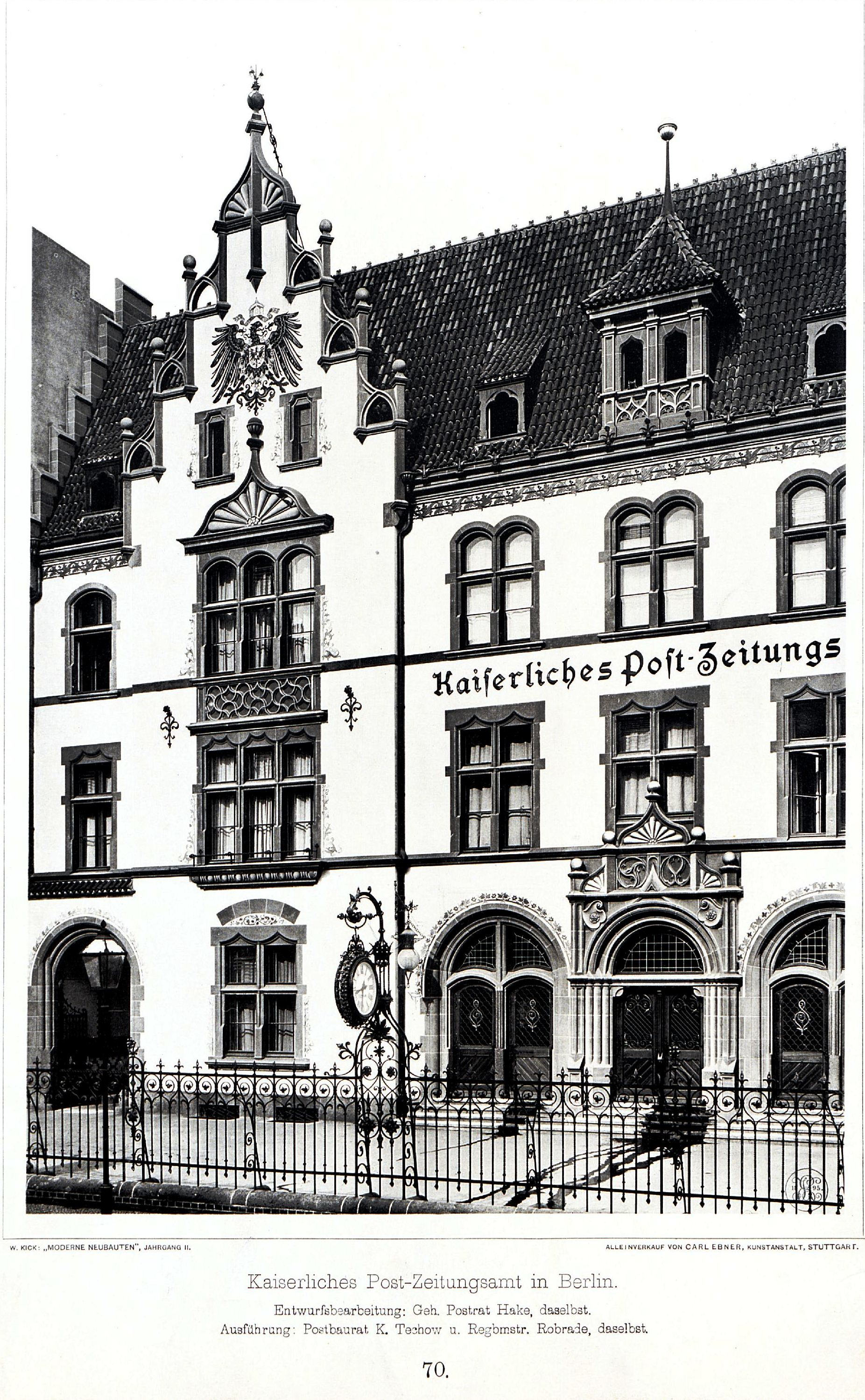 Kaiserl._Post-Zeitungsamt_in_Berlin,_Entwurf_Geh._Postrat_Hake,_Berlin,_Ausführung_Postbaurat_K._Techow_u._Regbmstr._Robrade,_Berlin,_Tafel_70,_Kick_Jahrgang_II.jpg